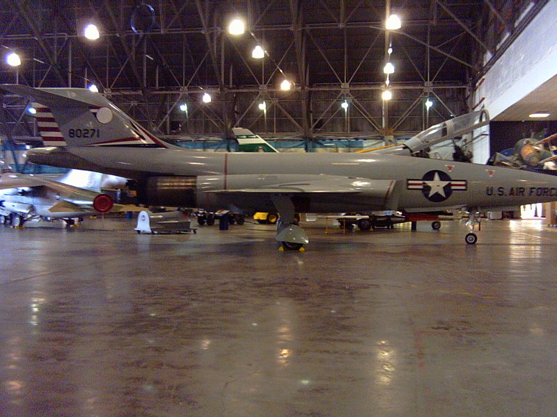 F-101B Voodoo at Wings Over the Rockies Air and Space Museum, Denver, CO Licensing Aircraft service history USAF model F-101B-105-MC s/n 58-0271 made by McDonnell Co. at St. Louis, MO The F-101B s/n 58-0271 was delivered to the USAF on April 19, 1960: May 1960 to 15th FIS ADC Davis Monthan AFB, Tucson, AZ Sep 1964 to Ogden UT, AMA for depot work Nov 1964 to 4756th ADW Training, Tyndell AFB, FL Posted by G. Bowser Sepember 13, 3018: My father, Richard Bowser, was the crew chief on this aircraft at Tyndall AFB from late 1968 until February 1970. It was still at Tyndall when he left. Therefore, the below dates with question marks are not accurate. ?Aug 1968 to 445th FIS ADC Wurtsmith AFB, MI ?Sep 1968 to 75th FIS ADC Wurtsmith AFB, MI ?Nov 1969 119th FIG ANG "Happy Hooligans" Hector Field, Fargo ND Aug 1977 142nd FIG ANG Portland OR Aug 1978 Lowry Technical Training Center (LTTC) Lowry AFB, Denver CO April 16, 1982 Removed from inventory. To Lowry Heritage Museum, Lowry AFB, Denver CO Dec 1994 To Wings Over the Rockies Air & Space Museum, Lowry Campus (Base closed), Denver CO SOURCE: Maxwell AFB History Office report to Lowry Heritage Museum, on-file, now Wings Over the Rockies Air and Space Museum.